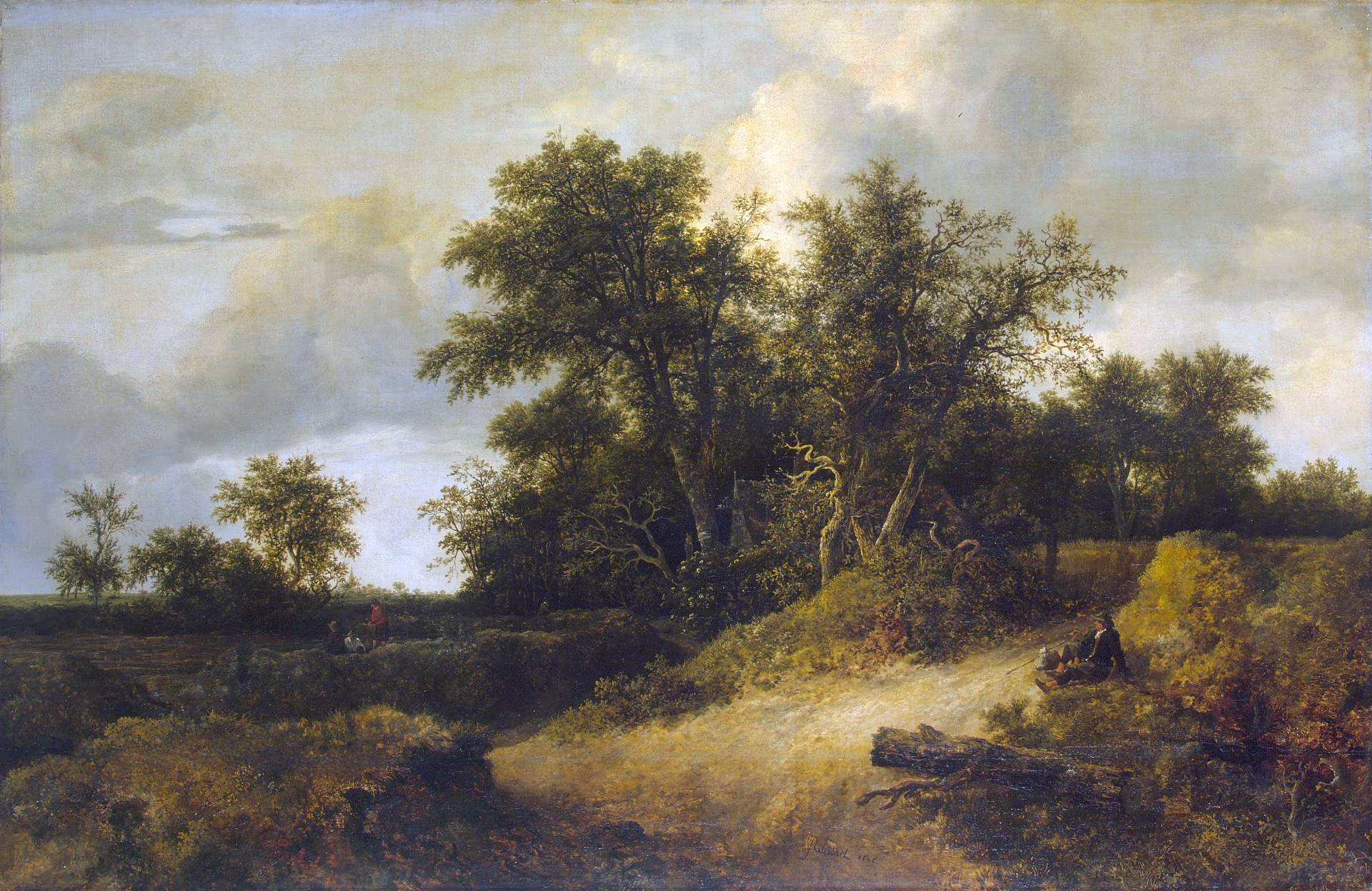 Dune Landscape by Jacob van Ruisdael, dated 1646. Inventory number 939 in the Hermitage. catalogue number 615 in Seymour Slive's catalogue raisonne of Ruisdael.